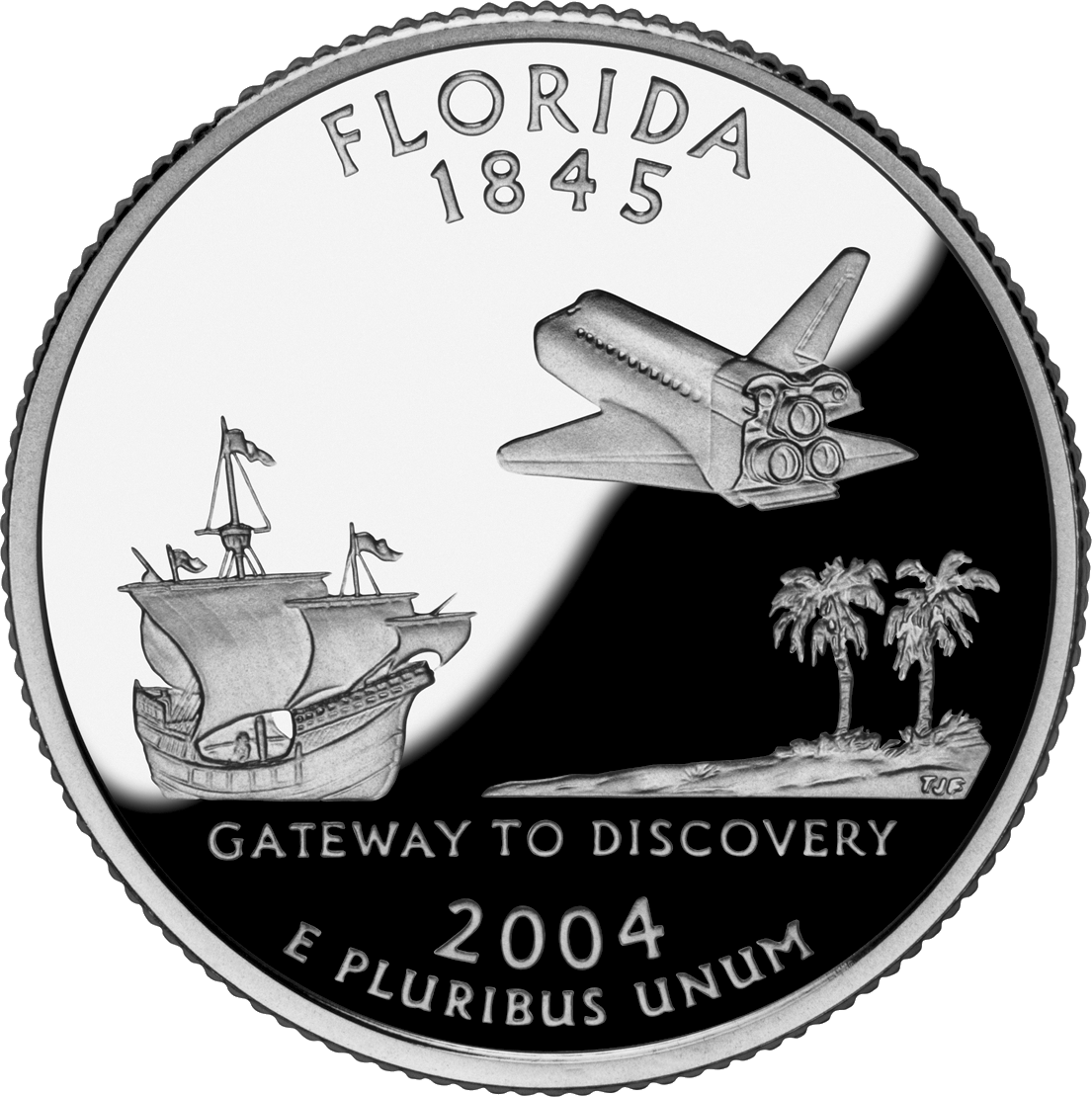 Removed background, cropped, and converted to PNG with Macromedia Fireworks. This image depicts a unit of currency issued by the United States of America. If Fraudulent use of this image is punishable under applicable counterfeiting laws. As listed by the United States Secret Service at money illustrations, the Counterfeit Detection Act of 1992, Public Law 102-550, in Section 411 of Title 31 of the Code of Federal Regulations (31 CFR 411), permits color illustrations of U.S. currency provided:1. The illustration is of a size less than three-fourths or more than one and one-half, in linear dimension, of each part of the item illustrated;2. The illustration is one-sided; and3. All negatives, plates, positives, digitized storage medium, graphic files, magnetic medium, optical storage devices, and any other thing used in the making of the illustration that contain an image of the illustration or any part thereof are destroyed and/or deleted or erased after their final use. Certain coins contain copyrights licensed to the U.S. Mint and owned by third parties or assigned to and owned by the U.S. Mint [1]. For the United States Mint circulating coin design use policy, see [2]; for the policy on the 50 State Quarters, see [3]. Also: COM:ART #Photograph of an old coin found on the Internet